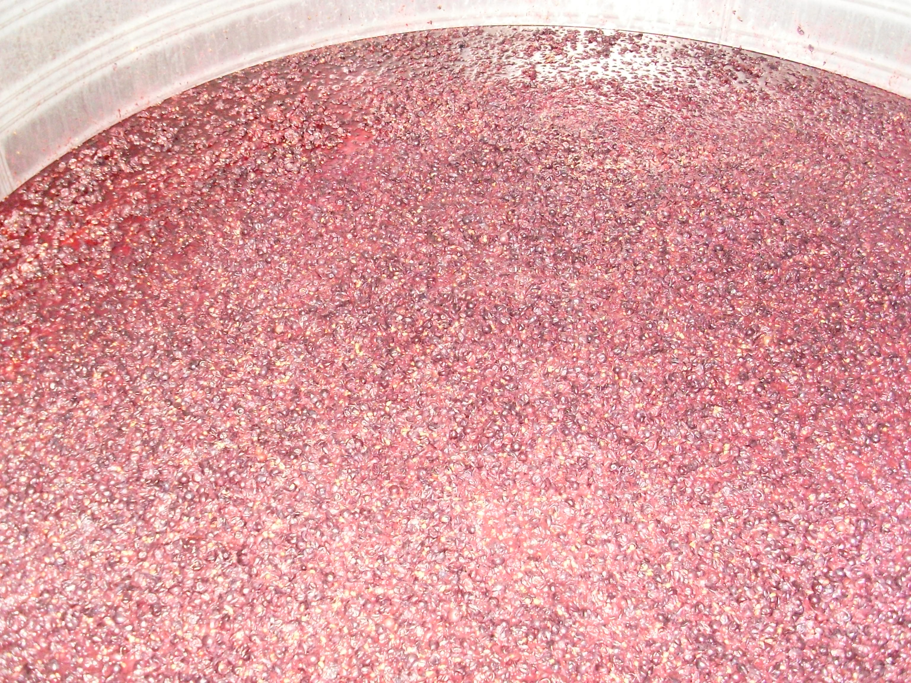 Cuve de moût de raisin que l'on vient de piger et remonter. Crushed Pinot noir grape must ready for fermentation in the French wine region of Burgundy